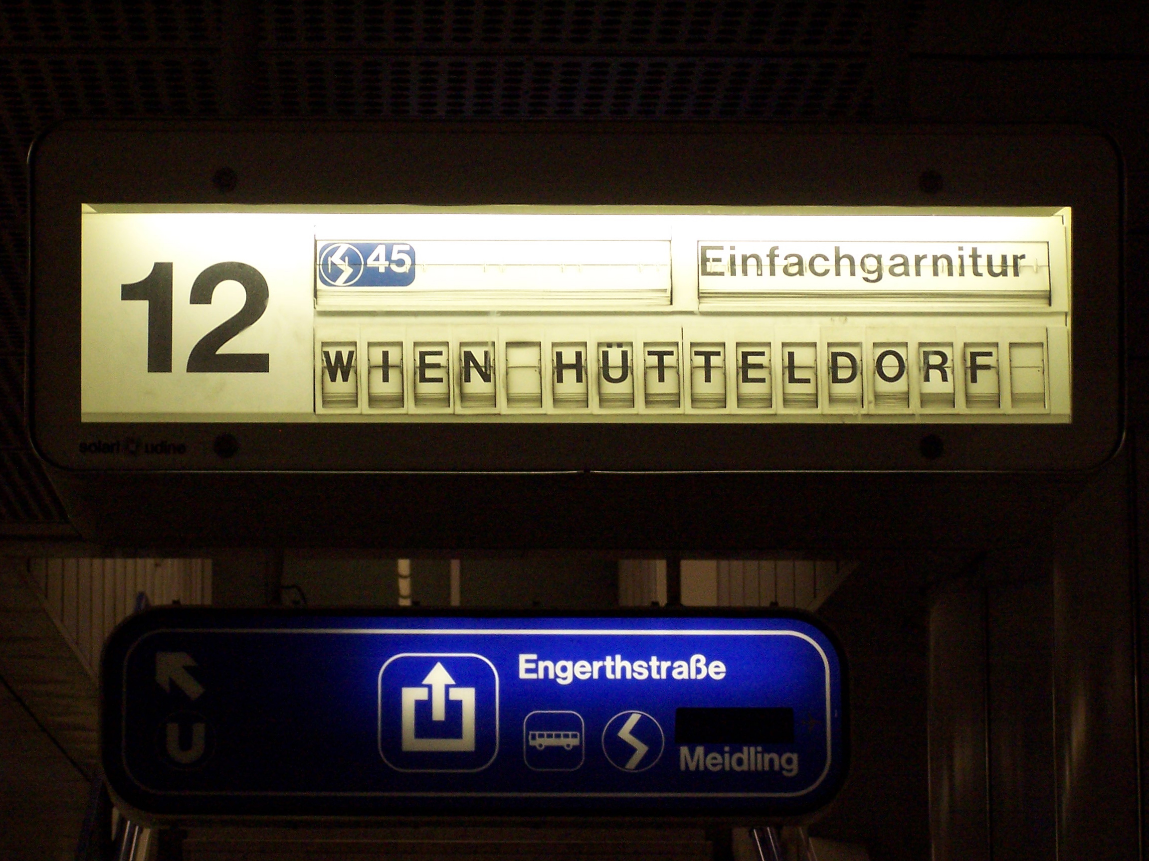 Former Split-flap display at the railway station Handelskai (Vienna)